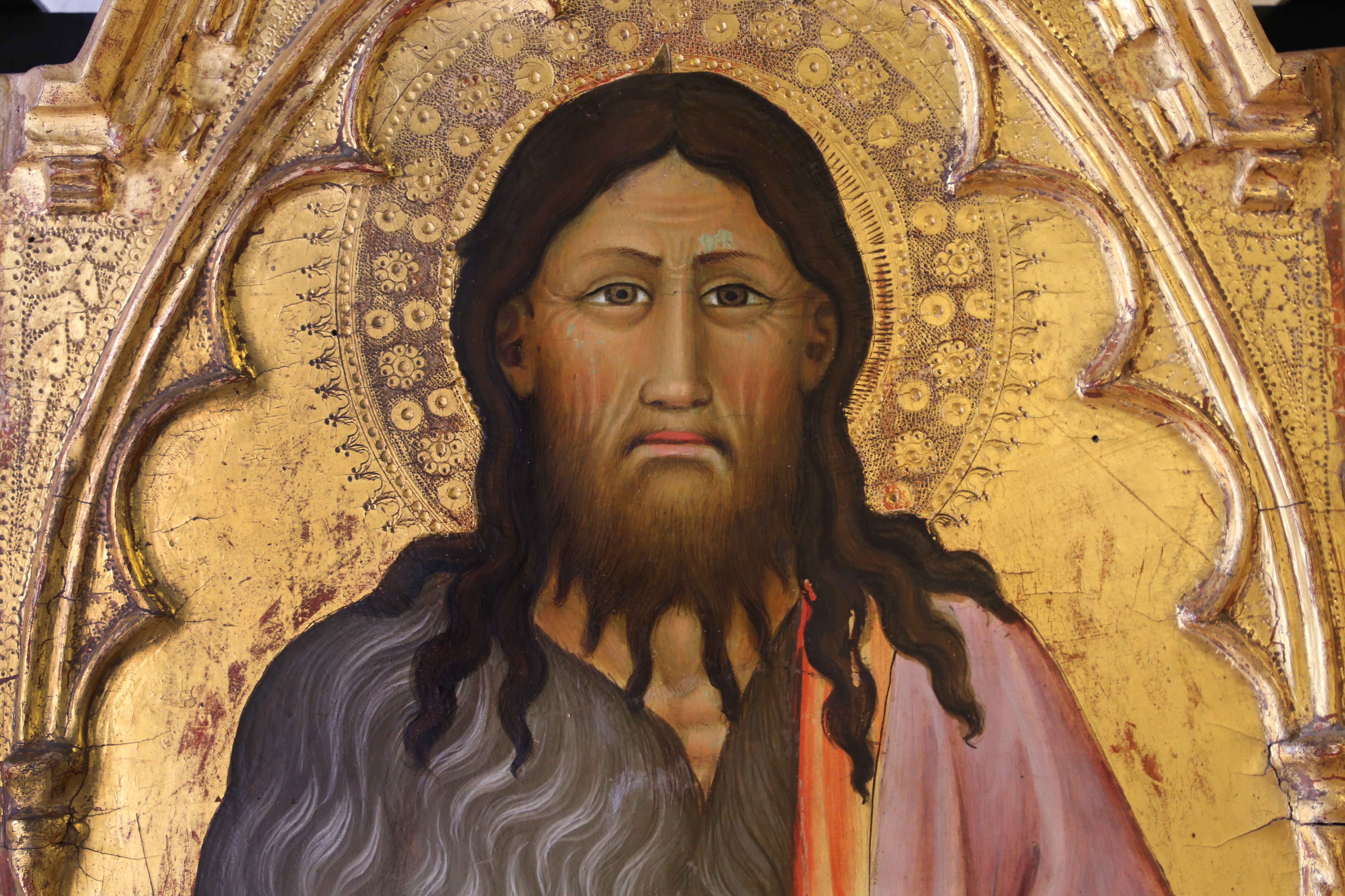 Italian paintings in the Musée du Petit Palais (Avignon)